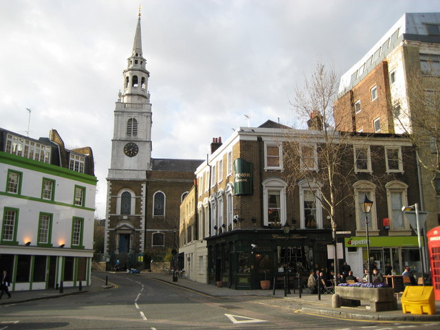 Clerkenwell Green: St James Church & The Crown Tavern, EC1 The church appears to be a Wren design but is not, having been completed in 1792 to the designs of James Carr, and replacing a much older building. The Church's website is here The road at the left of the Crown Tavern leading to the church is Clerkenwell Close.